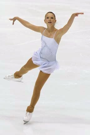 Marta Olczak at the 2007-2008 Junior Grand Prix event in Lake Placid, New York, United States.